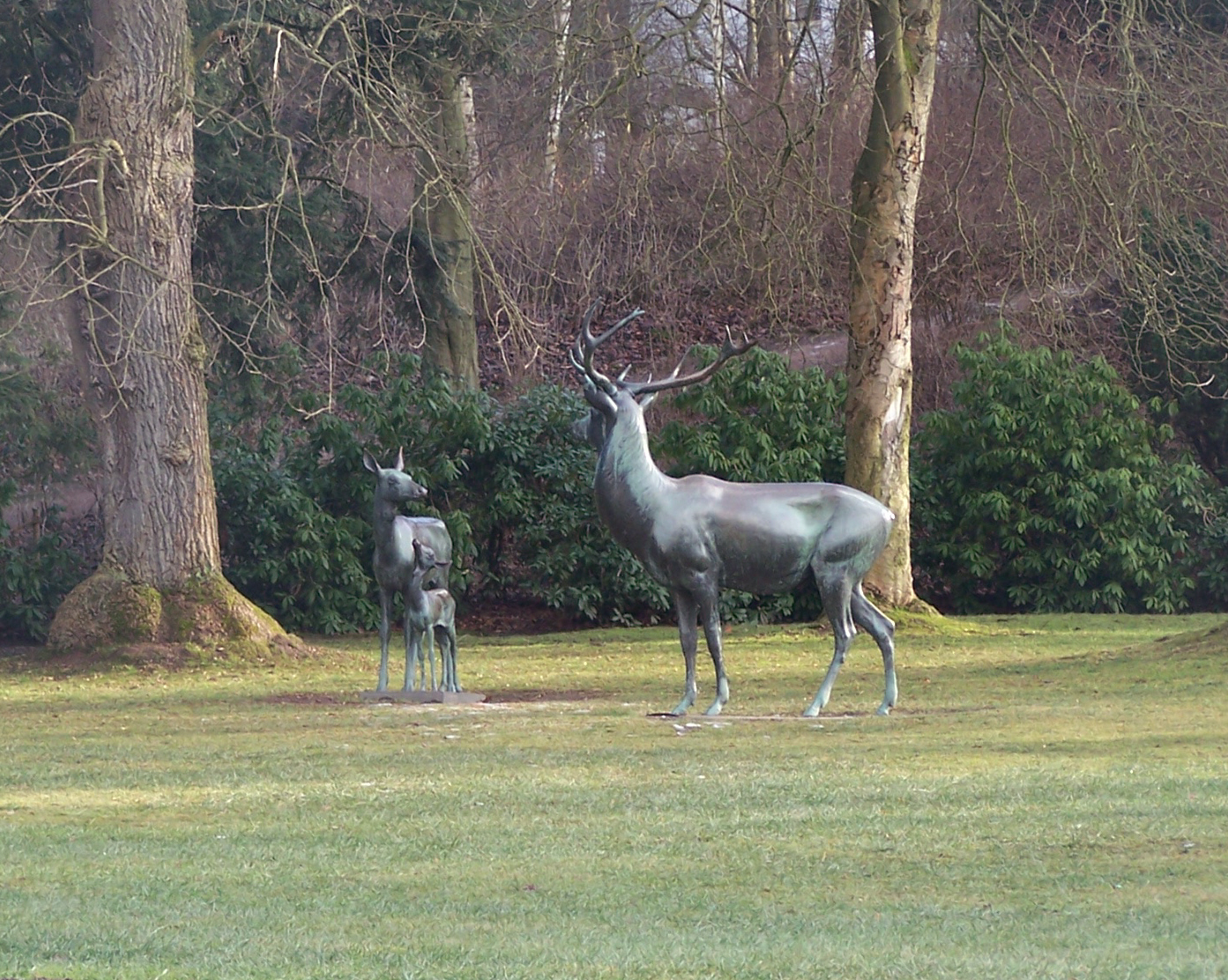 The deer group in Kartausgarten park.